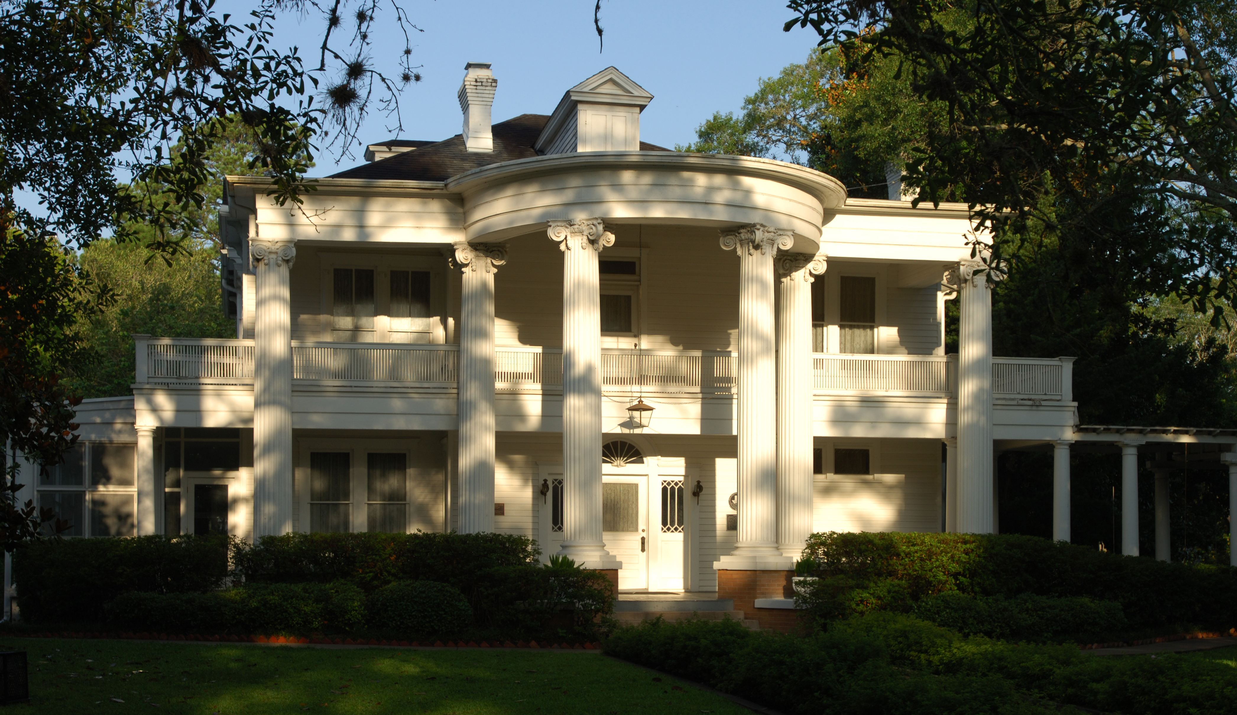 The John M. Moore House (Fort Bend Museum) in Richmond, Fort Bend County, Texas, USA, photographed in the early morning of 22 May 2006.